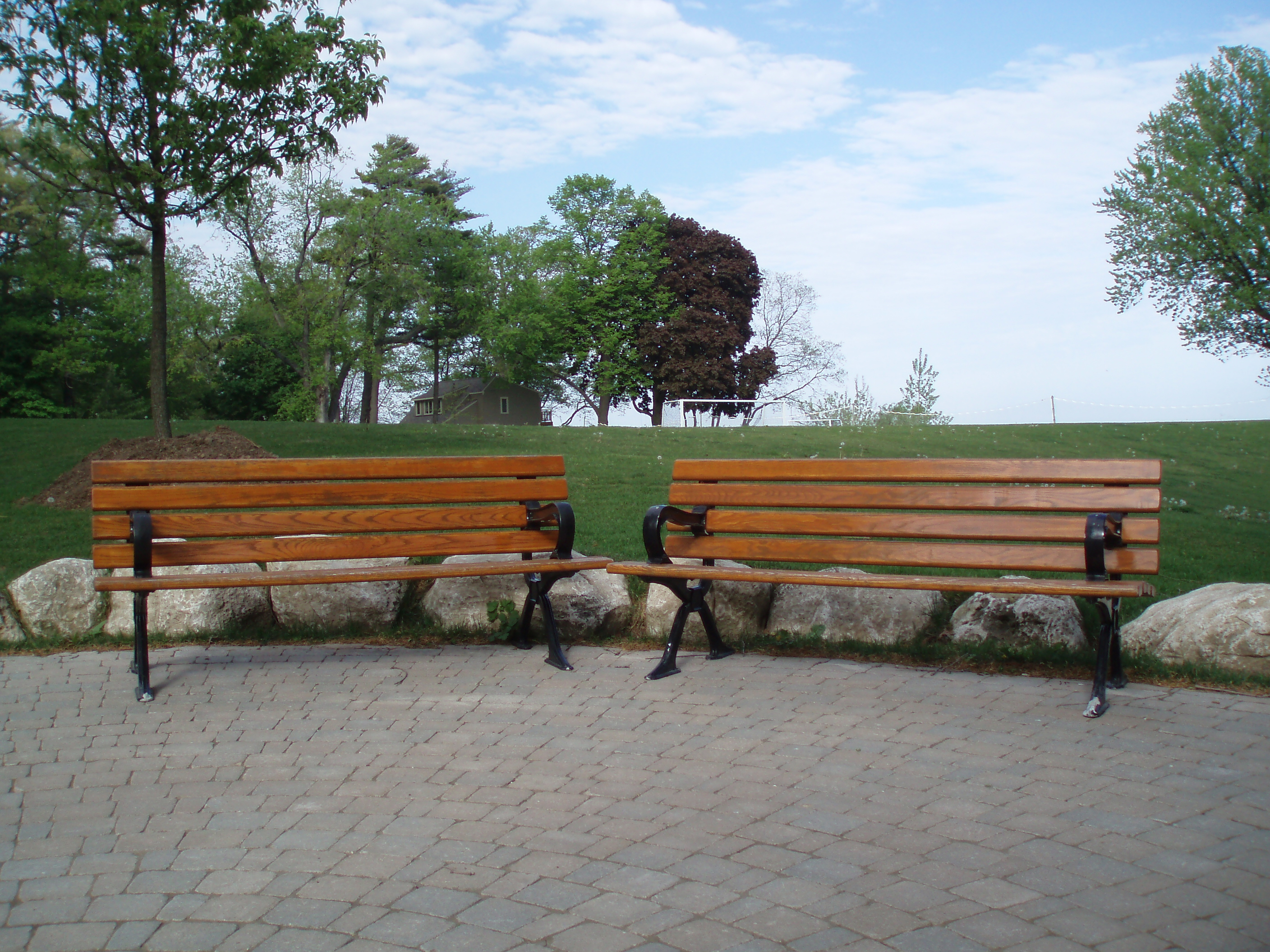 Appleby College, Oakville, Ontario, Canada